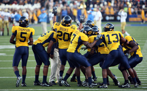 UCLA Bruins at California Golden Bears in 2006.